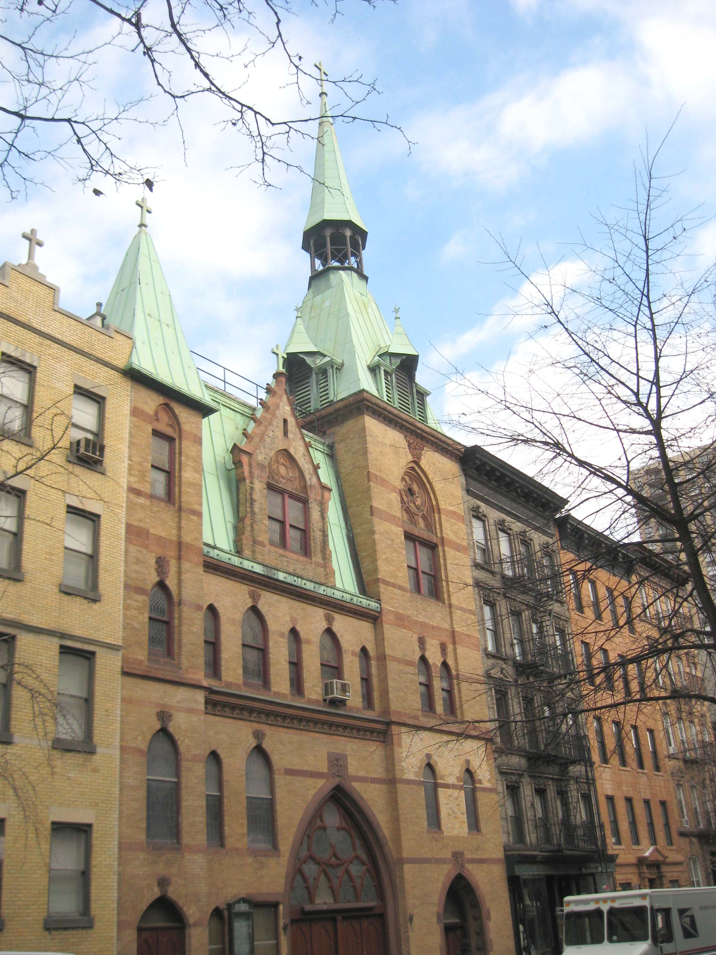 Looking east across 83d Street at Roman Catholic Church of St Elizabeth of Hungary on a cloudy afternoon. ZIP 10028.